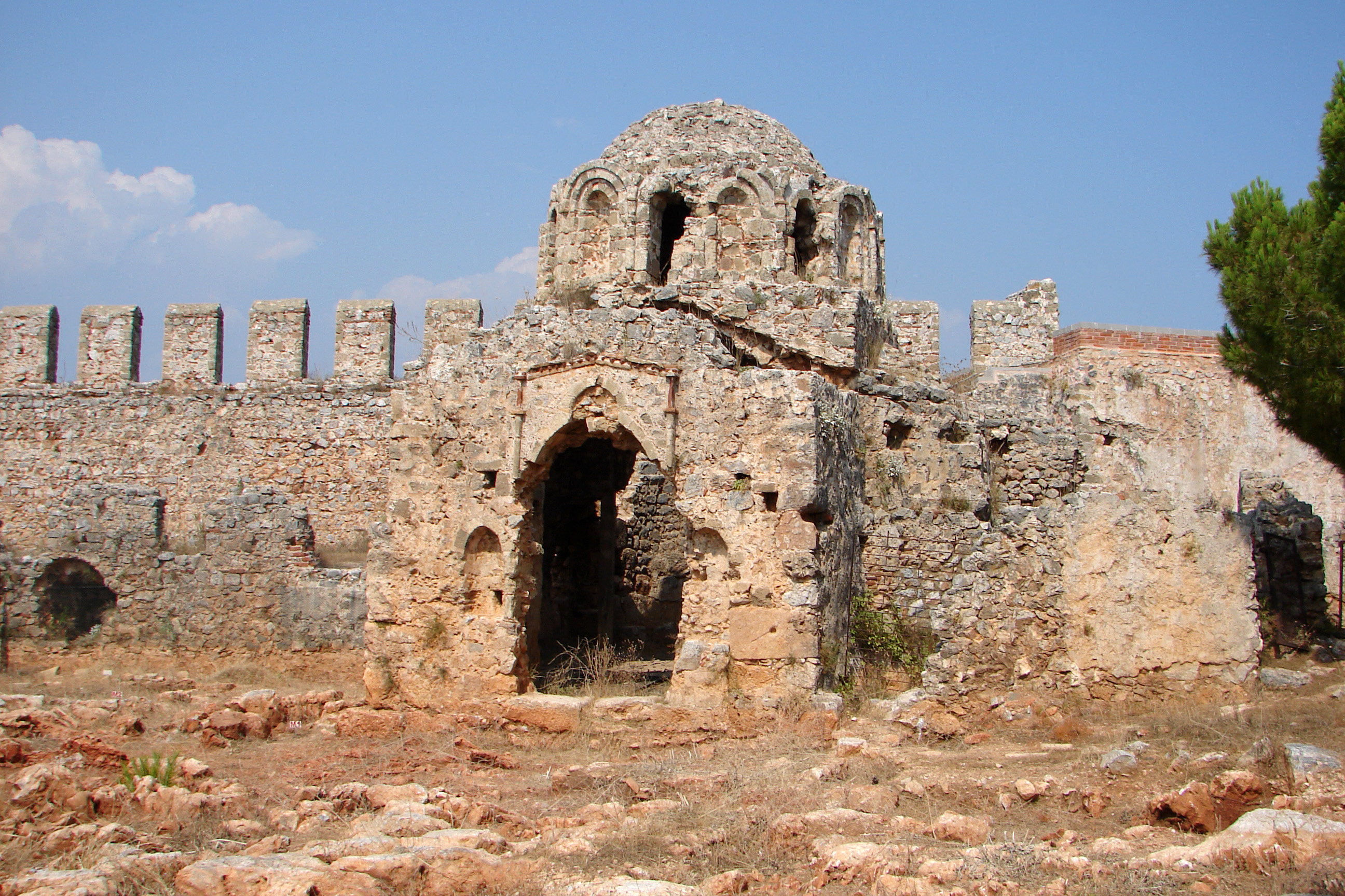 Alanya, Byzantine church